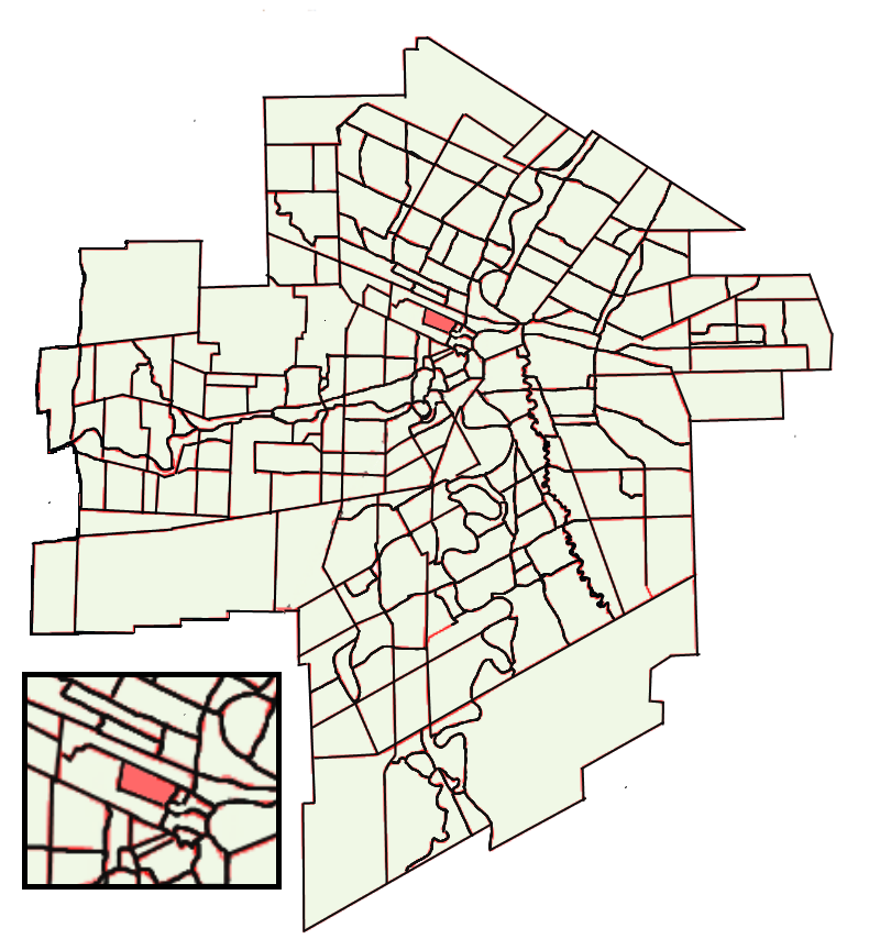 The red area is where Centennial is located within the city of Winnipeg